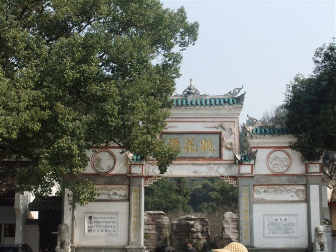 The Peach Garden is located in Taoyuan County, Hunan, China. It is a well-known tourist attraction.